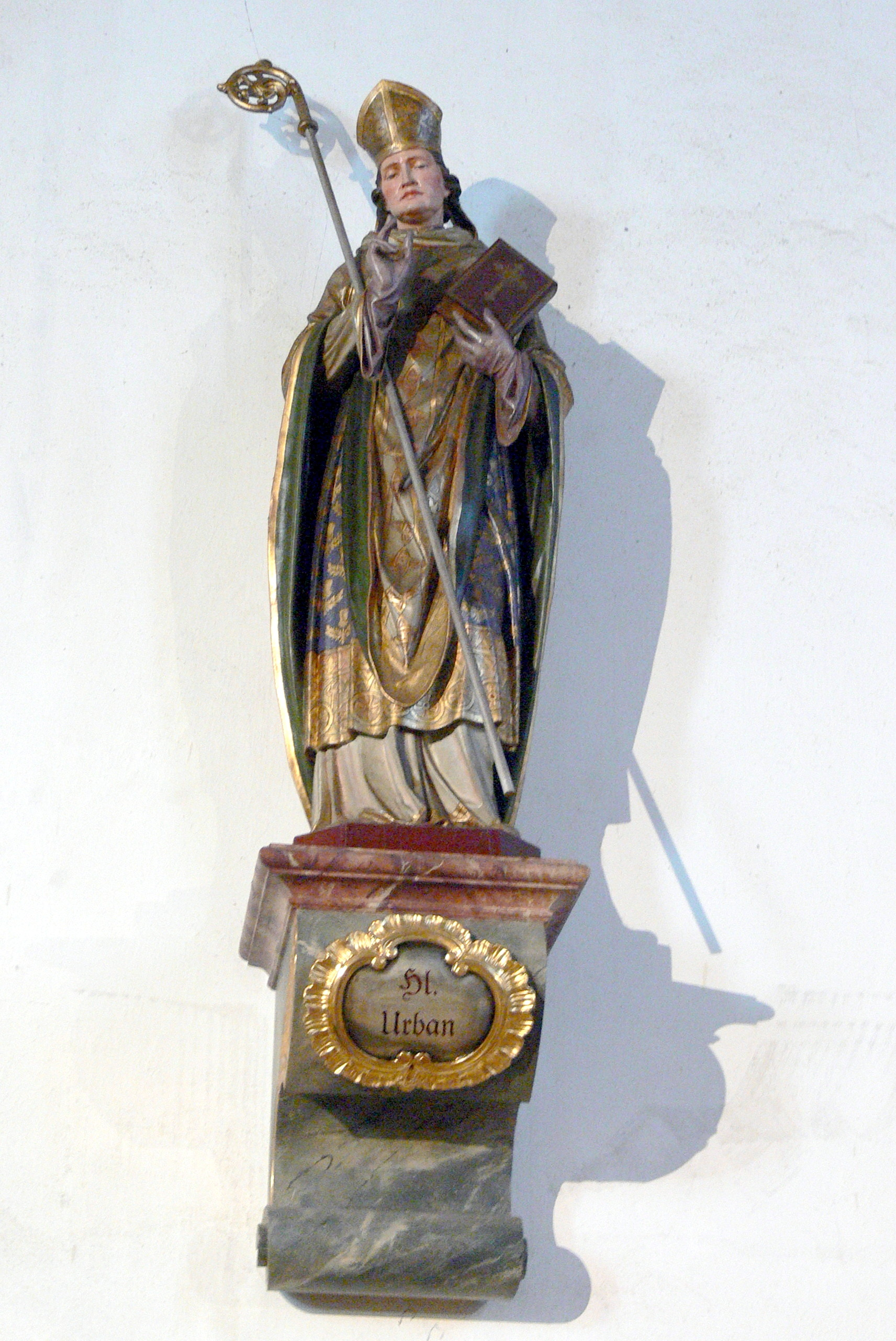 Bogenberg ( Lower Bavaria ). Mary-Assumption-Church: Statue of Saint Urban.